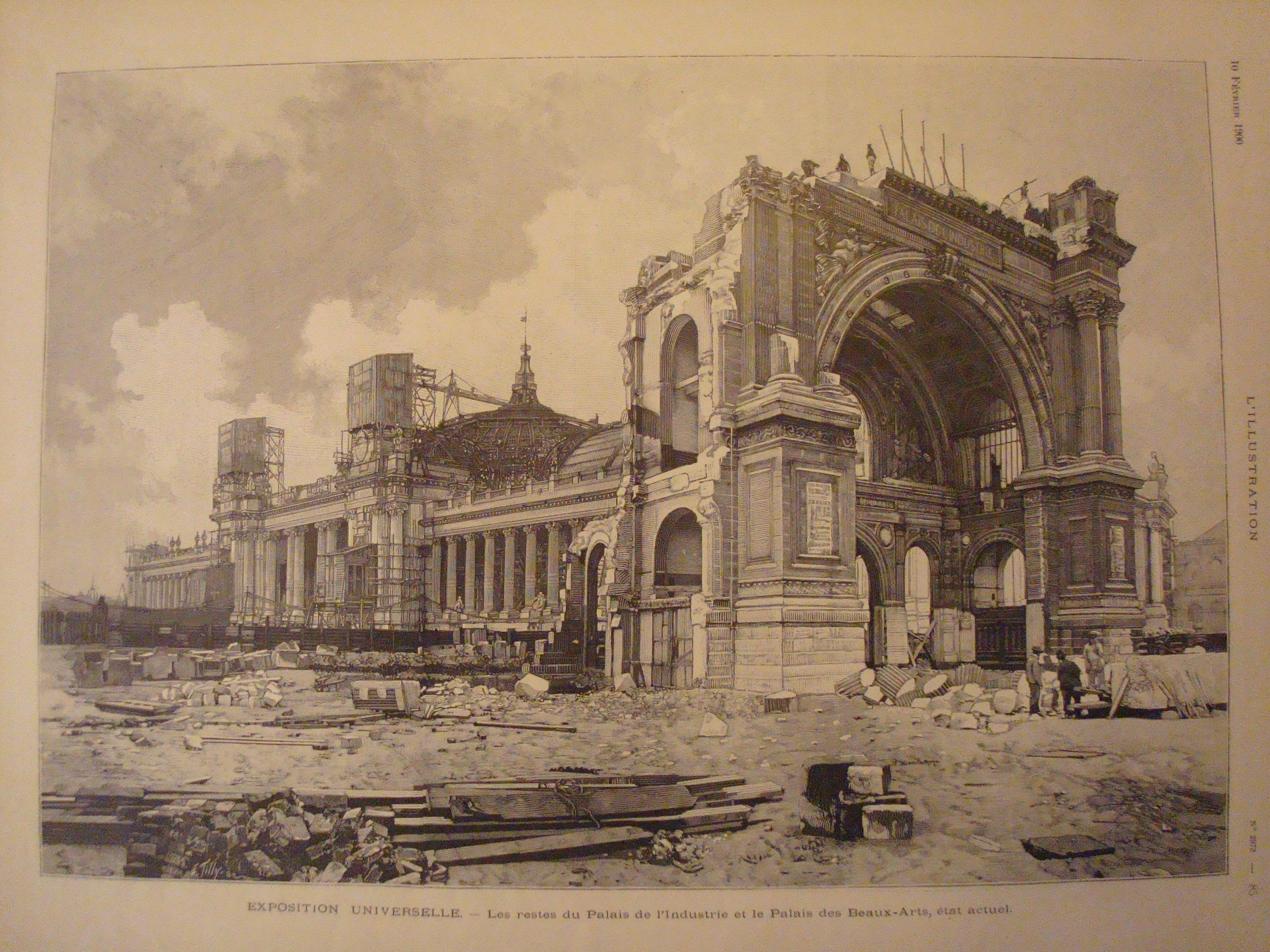 Engraved print showing remnants of the Palais de l'Industrie in Paris as it appeared in February 1900 shortly before its complete demolition. The construction of the new Grand Palais is visible in the background. Published on 10 February 1900 in L'Illustration, author not identified.